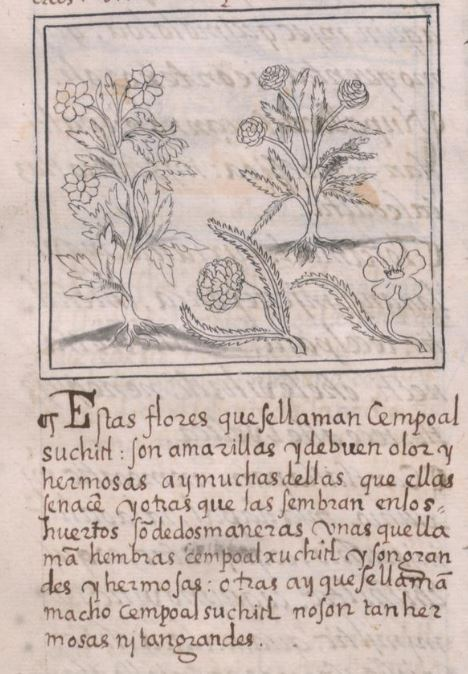 Fragment of Florentine Codex (1577) 186v. depicting the flower called Cempoalxóchitl (Tagetes erecta) called Cempasúchil or Flor de Muertos, in contemporary Mexico with the writing that explains their properties and uses.